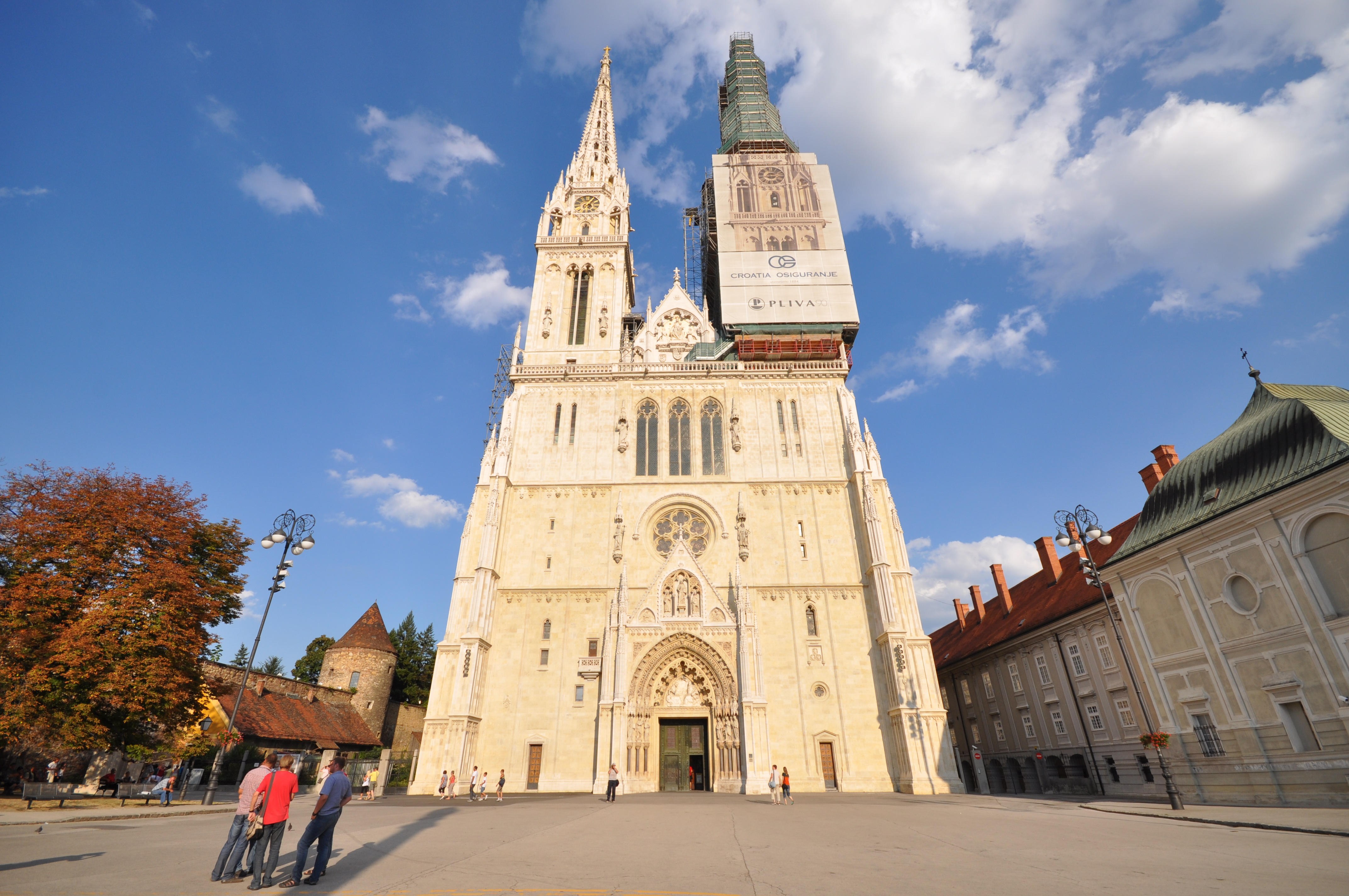 The Zagreb Cathedral on Kaptol is a Roman Catholic institution and the tallest building in Croatia. It is dedicated to the Assumption of Mary and to kings Saint Stephen and Saint Ladislaus. The cathedral is typically Gothic, as is its sacristy, which is of great architectural value. Its spires can be seen from many locations in the city. History Construction on the cathedral started in 1093, but the building was destroyed by the Tatars in 1242. At the end of the 15th century, the Ottoman Empire invaded Bosnia and Croatia, triggering the construction of fortification walls around the cathedral, some of which are still intact. In the 17th century, a fortified renaissance watchtower was erected on the south side, and was used as a military observation point, because of the Ottoman threat. The cathedral was severely damaged in the 1880 Zagreb earthquake. The main nave collapsed and the tower was damaged beyond repair. The restoration of the cathedral in the Neo-Gothic style was led by Hermann Bollé, bringing the cathedral to its present form. As part of that restoration, two spires 108 m (354 ft) high were raised on the western side, both of which are now in the process of being restored as part of an extensive general restoration of the cathedral. The cathedral is depicted on the reverse of the Croatian 1000 kuna banknote issued in 1993. When facing the portal, the building is 46 meters wide and 108 meters high. The cathedral contains a relief of Cardinal Aloysius Stepinac with Christ done by the Croatian sculptor Ivan Meštrović. The cathedral was visited by Pope Benedict XVI on 5 June 2011 where he celebrated Sunday Vespers and prayed before the tomb of Blessed Aloysius Stepinac